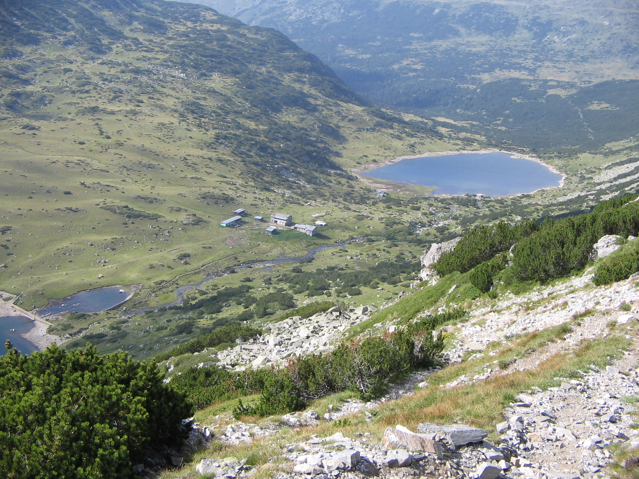 The hut Ribni ezera in Rila Mountain, Bulgaria